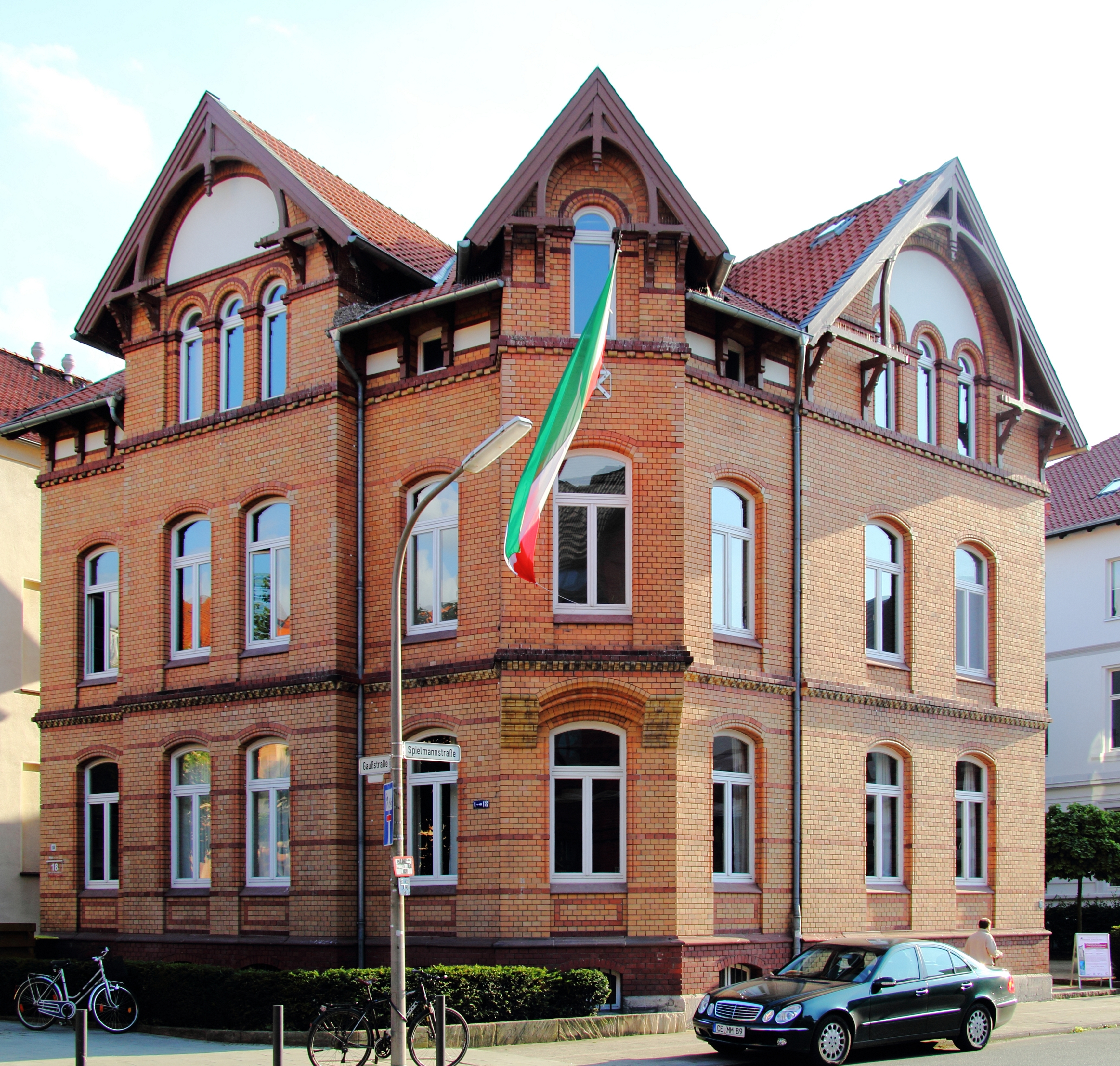 Braunschweig: house of student fraternity Corps Teutonia-Hercynia, Gausstrasse 18, 38106 Braunschweig